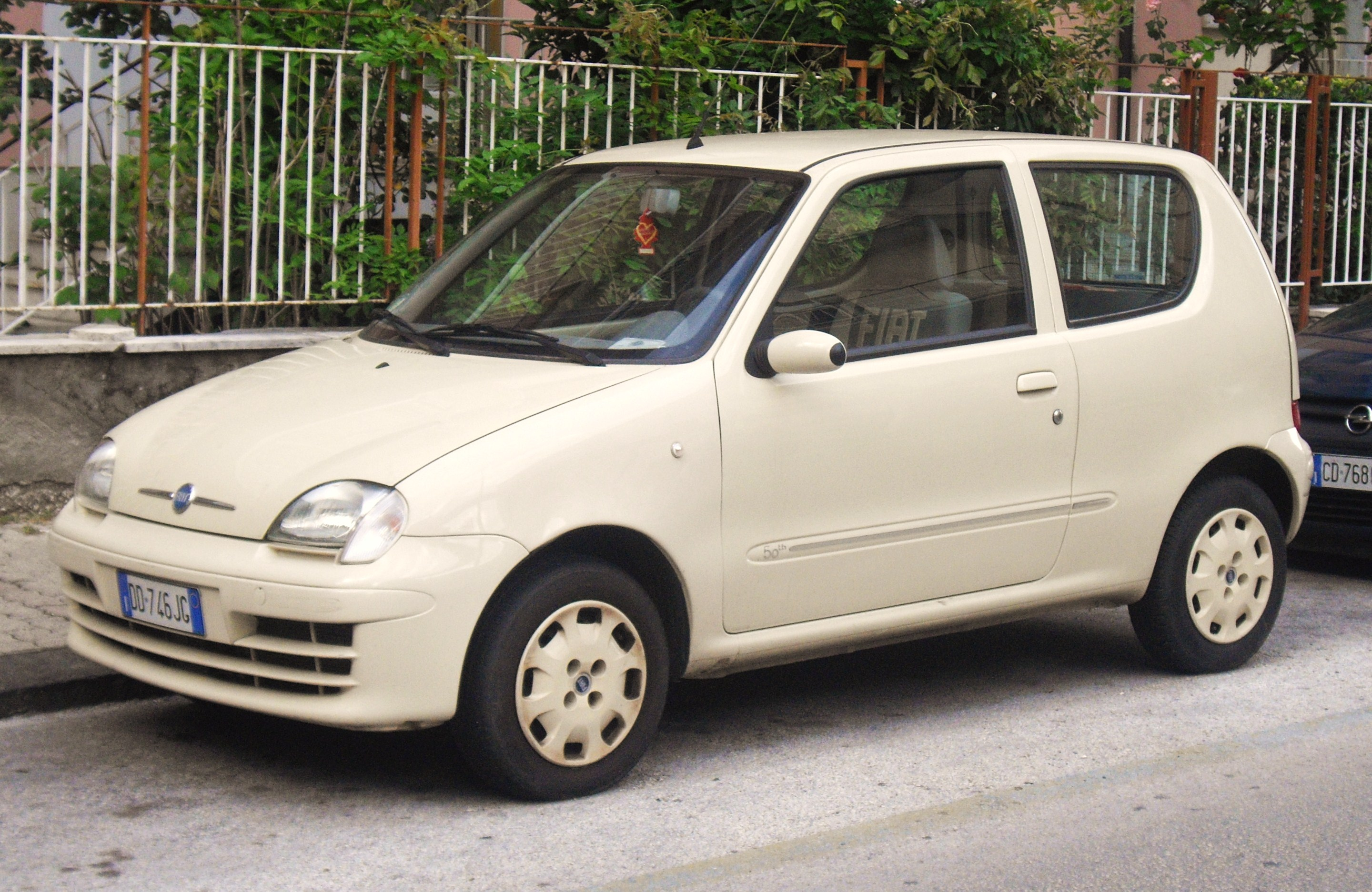 Fiat 600 50th Anniversary.